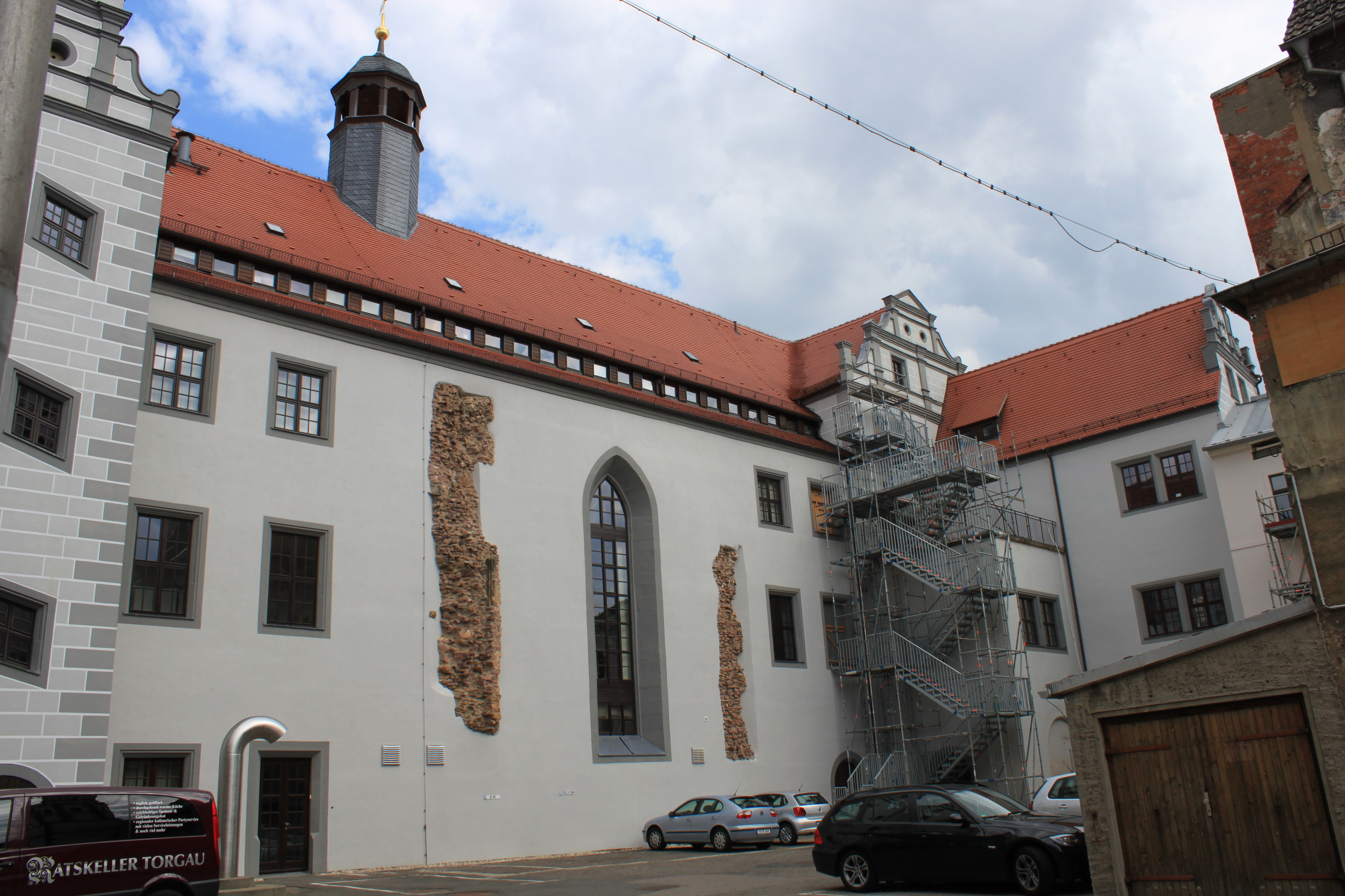 backside of the town hall